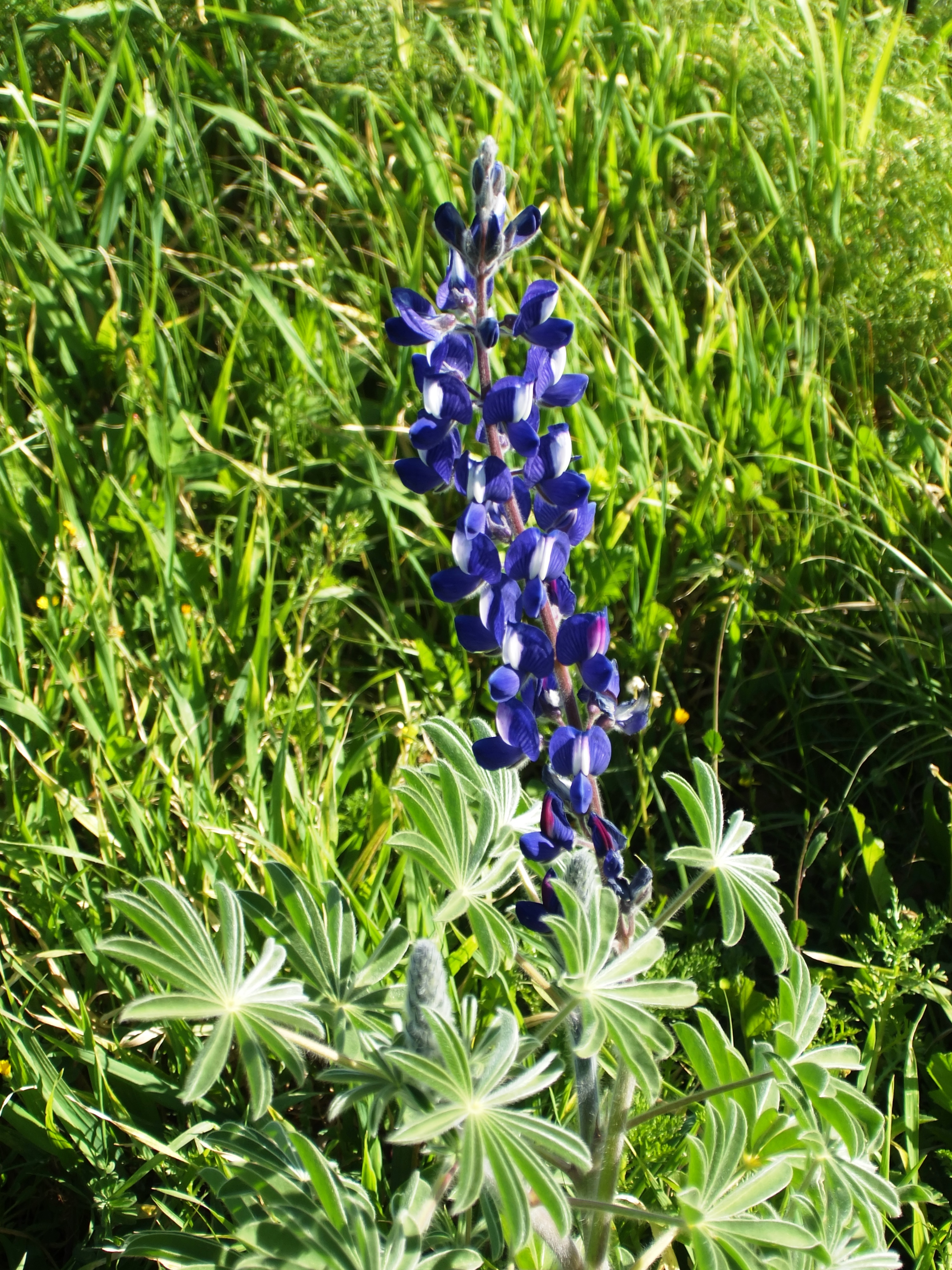 Photograph of the Blue Lupine (Lupinus pilotus), taken by me in the ancient run=in of Tel Socho, Israel Other information